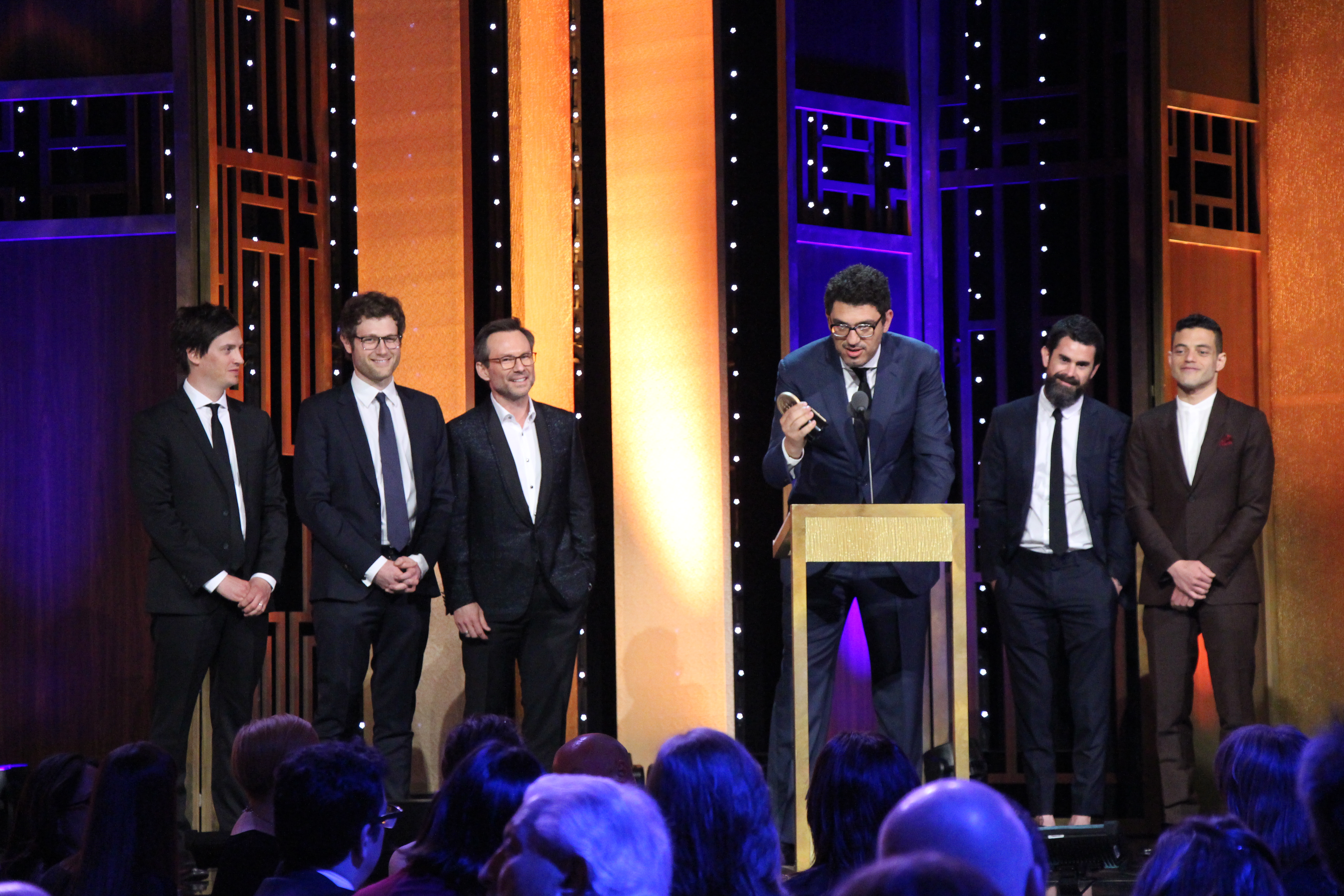 This photo includes Writer/ Co-Executive Producer Kyle Bradstreet, Writer Adam Penn, Actor Christian Slater, Creator/Executive Producer/Writer/Director Sam Esmail, Executive Producer Chad Hamilton and Actor Rami Malek accepting the Peabody for "Mr. Robot." (Photo/Sarah E. Freeman/Grady College, in New York City, Georgia, on Saturday, May 21, 2016)